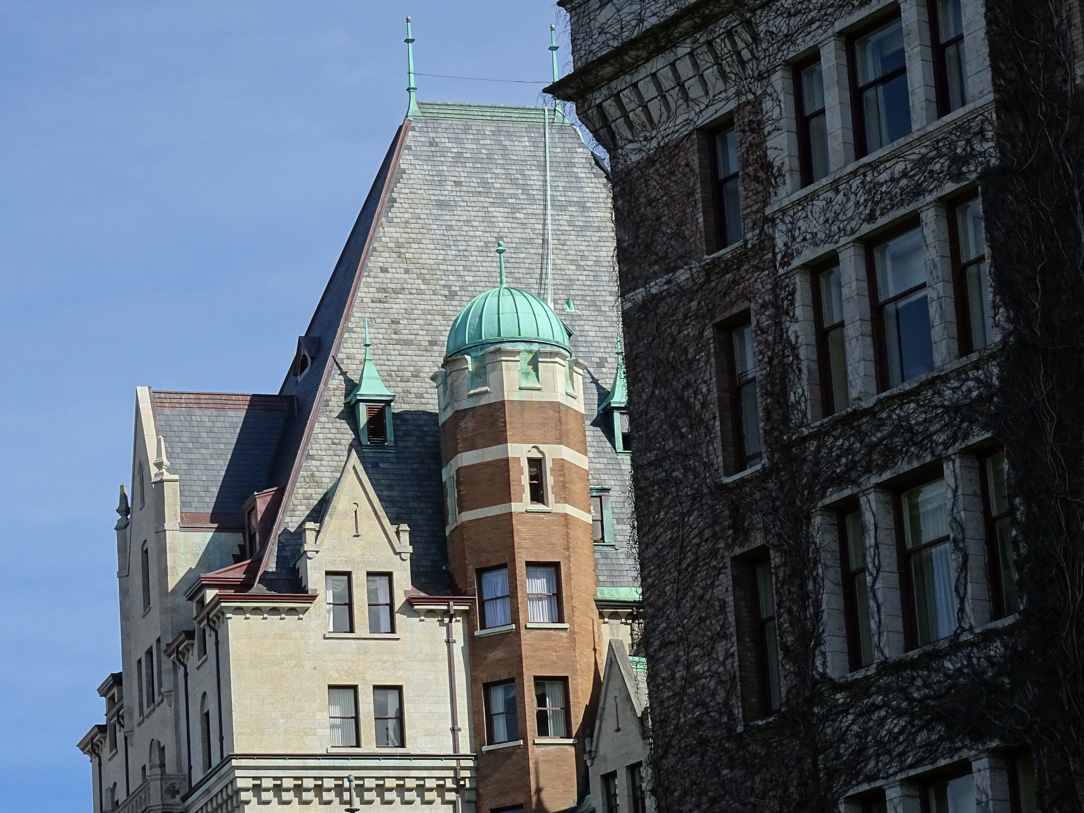 Architectural Detail - Empress Hotel - Victoria - BC - Canada - 01